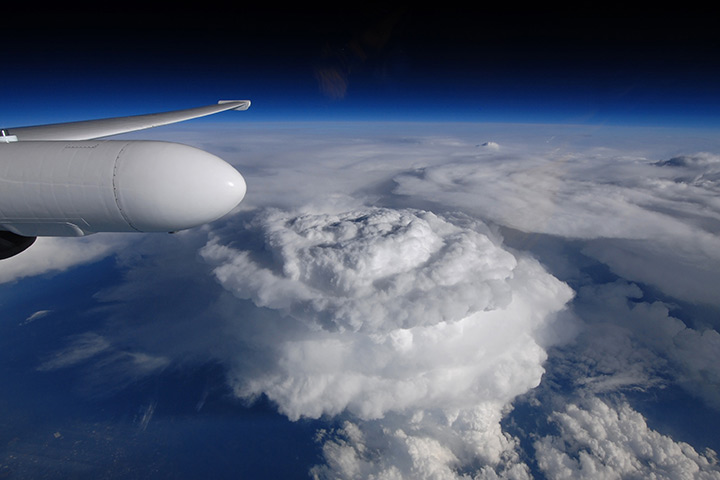 Towering cloud (Thunderstorm)